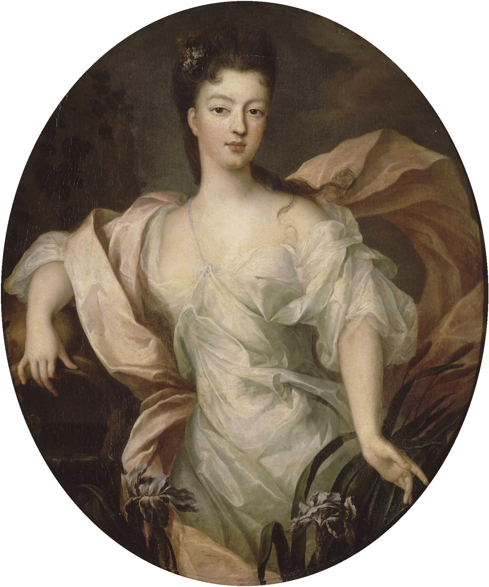 Presumed portrait of Louise Élisabeth de Bourbon, Princess of Conti (1693-1775), misidentified with her daughter-in-law Louise Diane d'Orléans, Princess of Conti (1716-1736)